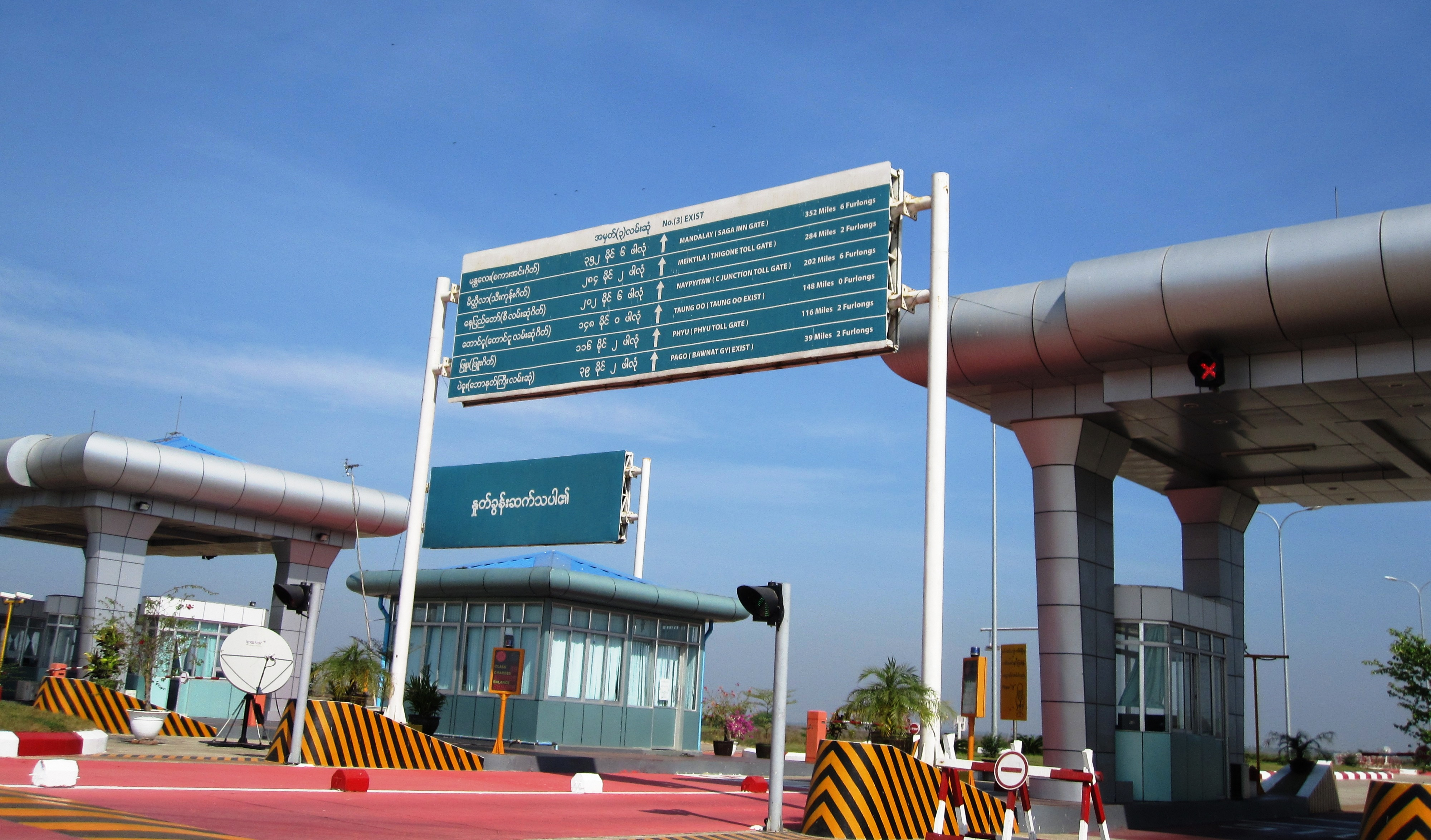 Yangon, Myanmar: Tollbooth, Yangon-Naypyidaw highway.